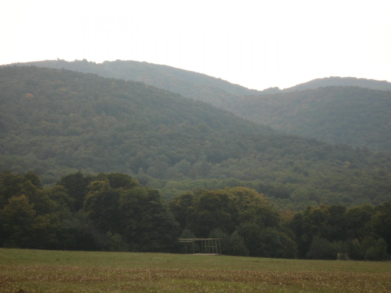 Bonsovi meadows, in the rear are peaks Dupevitza and Dobrinova skala, Lyulin mountain, Bulgaria